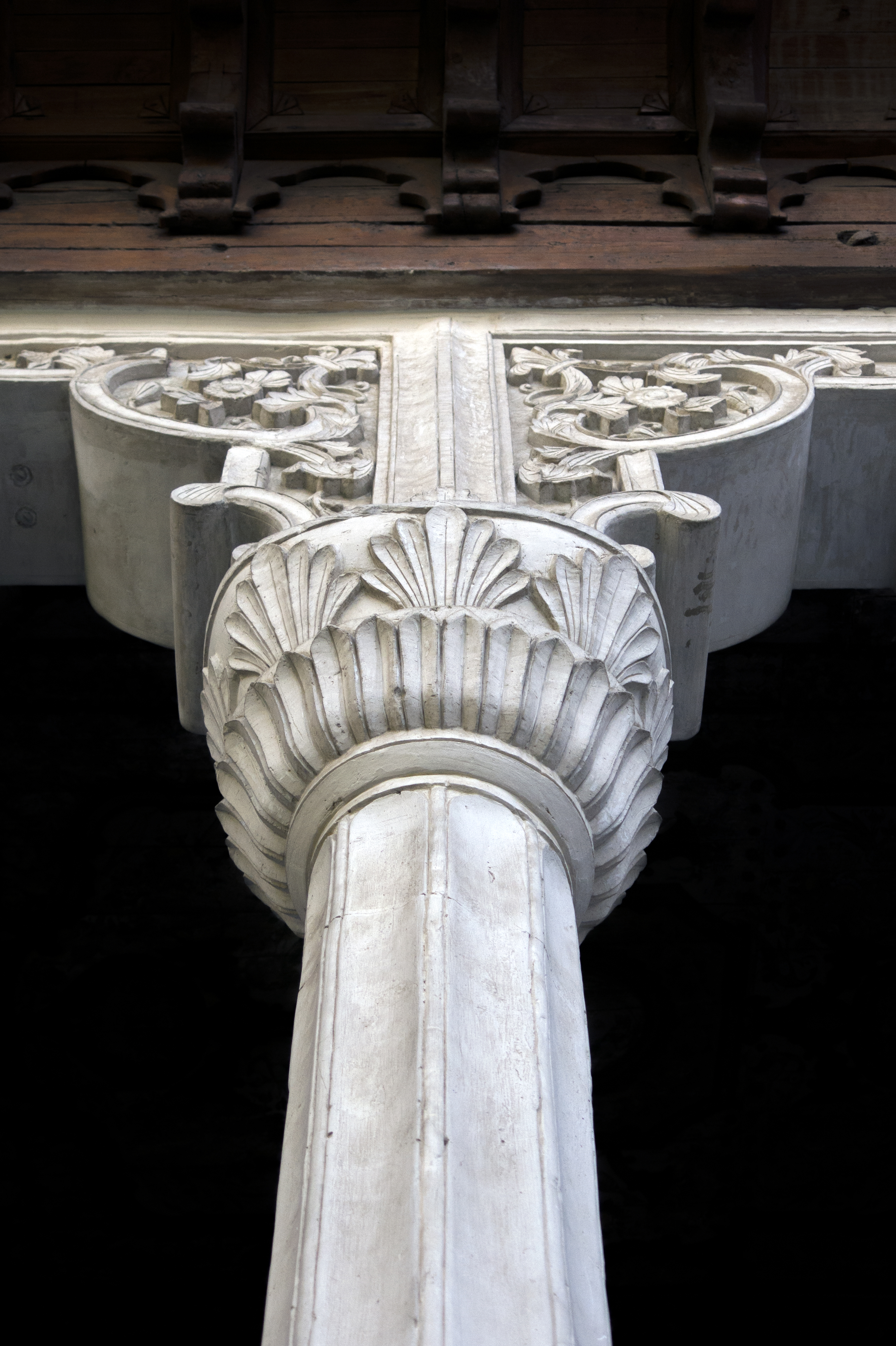 In architecture the capital or chapiter forms the topmost member of a column .